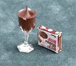 Photo of a Jell-O brand chocolate pudding.